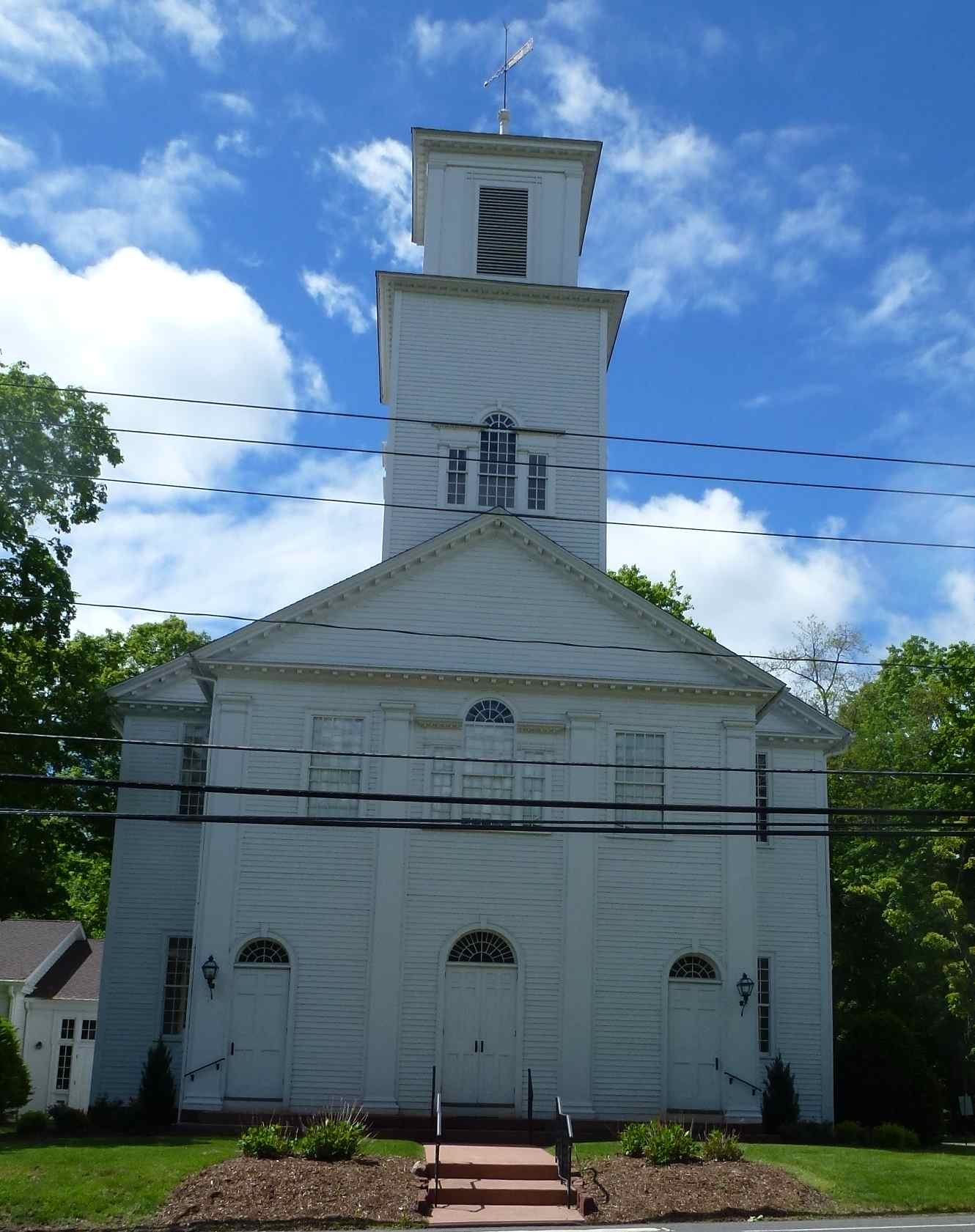 184 Cherry Brook Road (1814) Canton CT First Congregational Church of Canton Center.